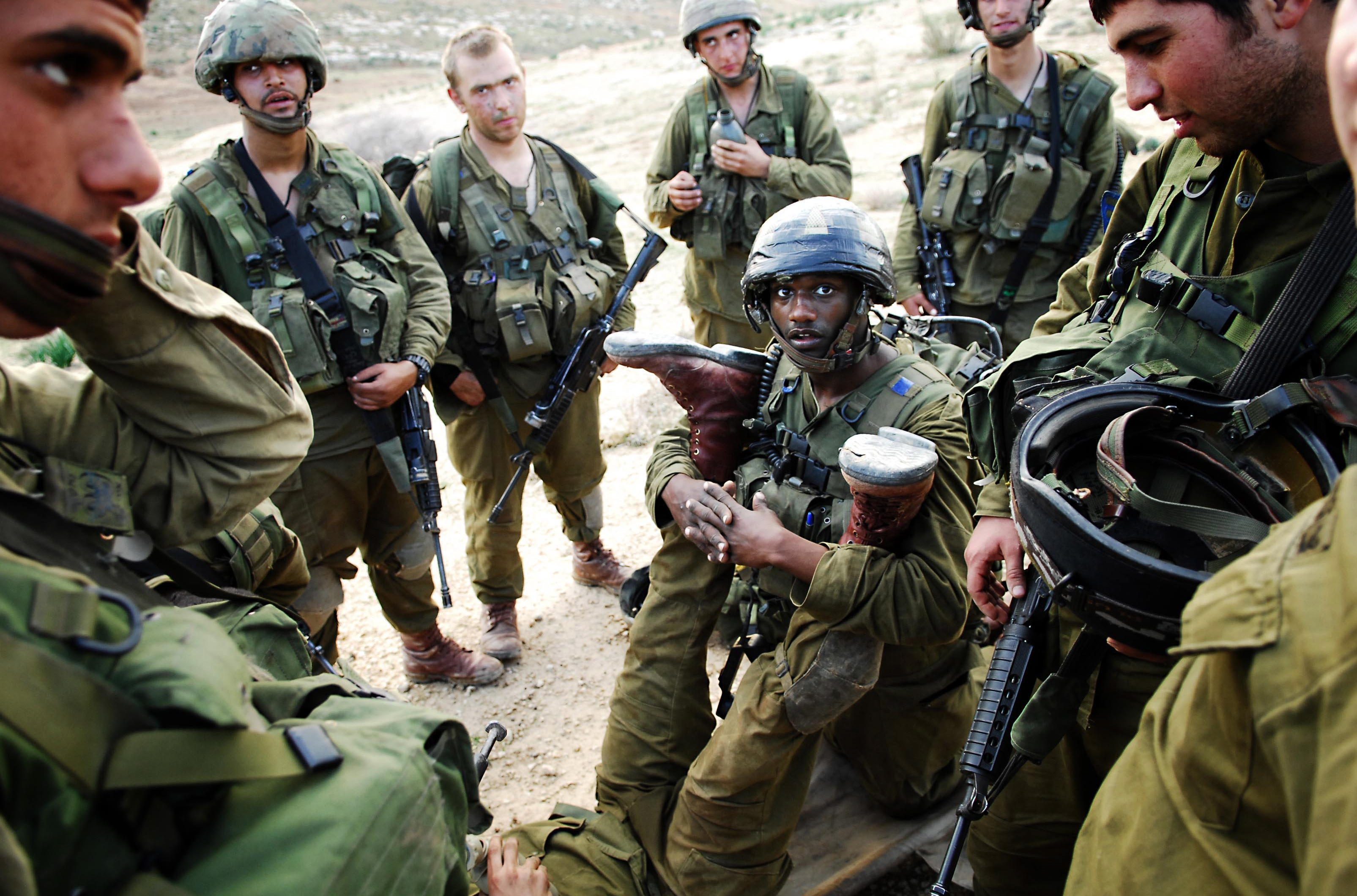 The Kfir Brigade takes part in drills in open fields as part of a comprehensive test of their entire training in the unit.